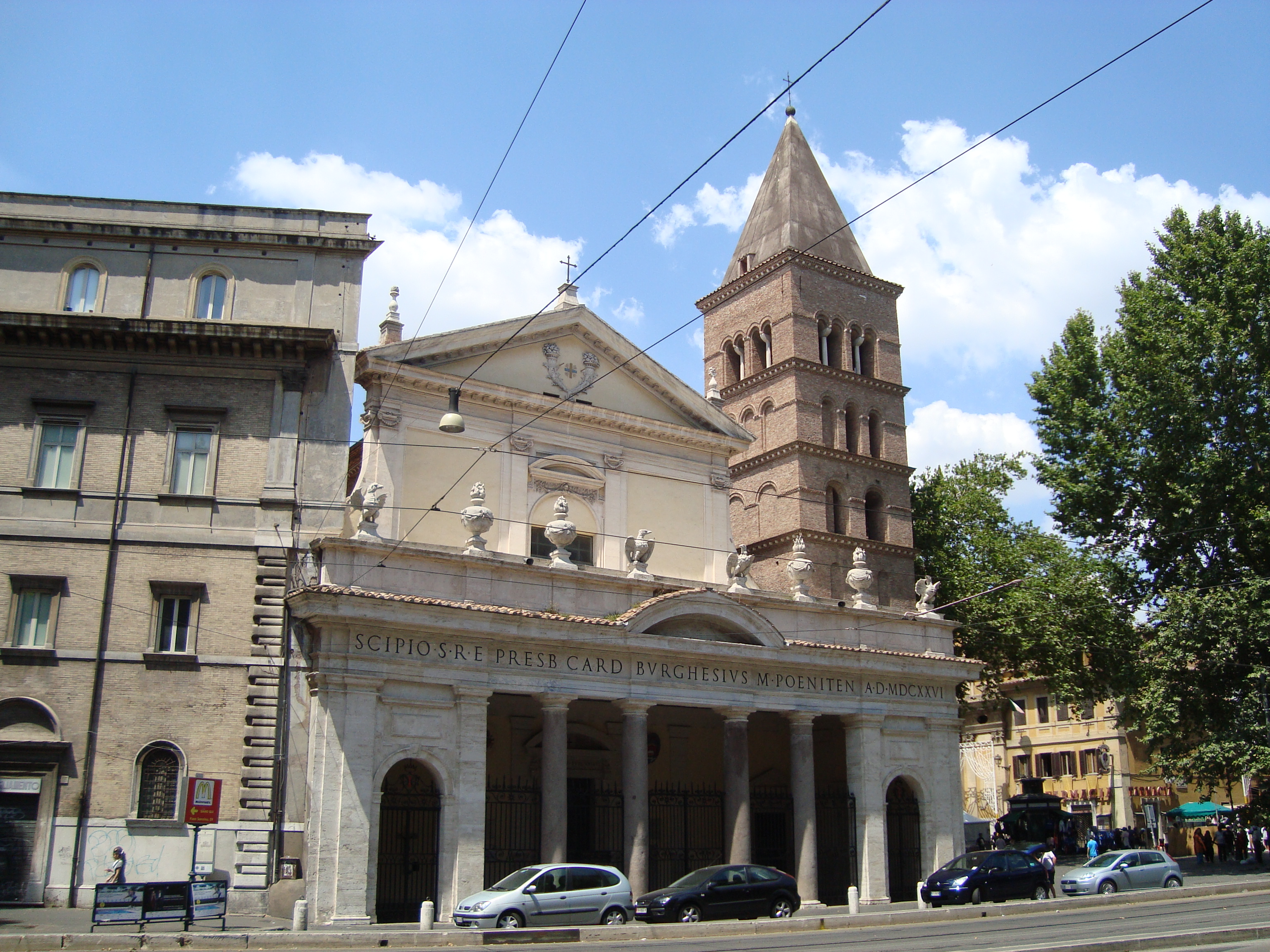 Basilica San Crisogono in Trastevere in Rome